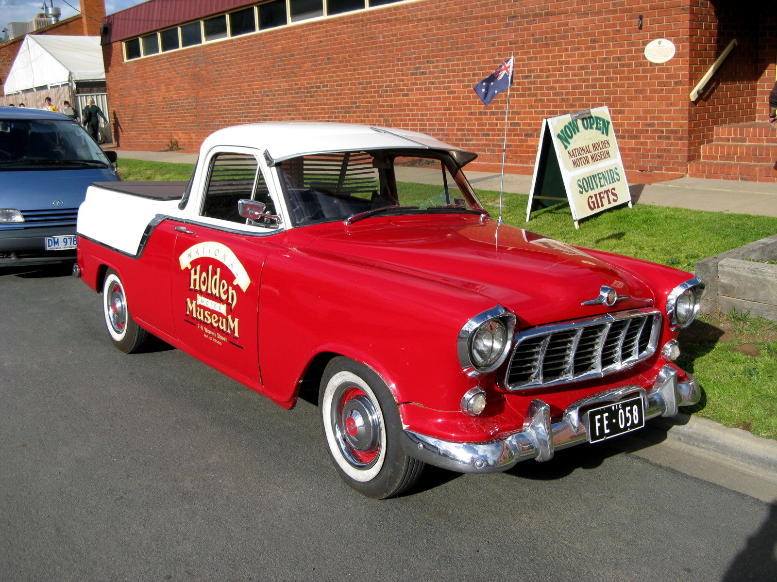 1958 Holden FE Utility, photographed outside the National Holden Motor Museum in Echuca, Victoria, Australia.